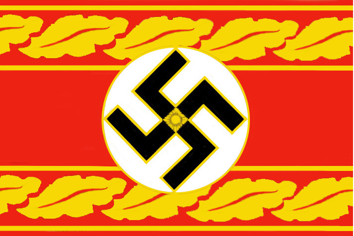 Screenshot showing World War II era Nazi Party Armbands. Created with Mircosoft Powerpoint & Windows Paint (Windows 7)